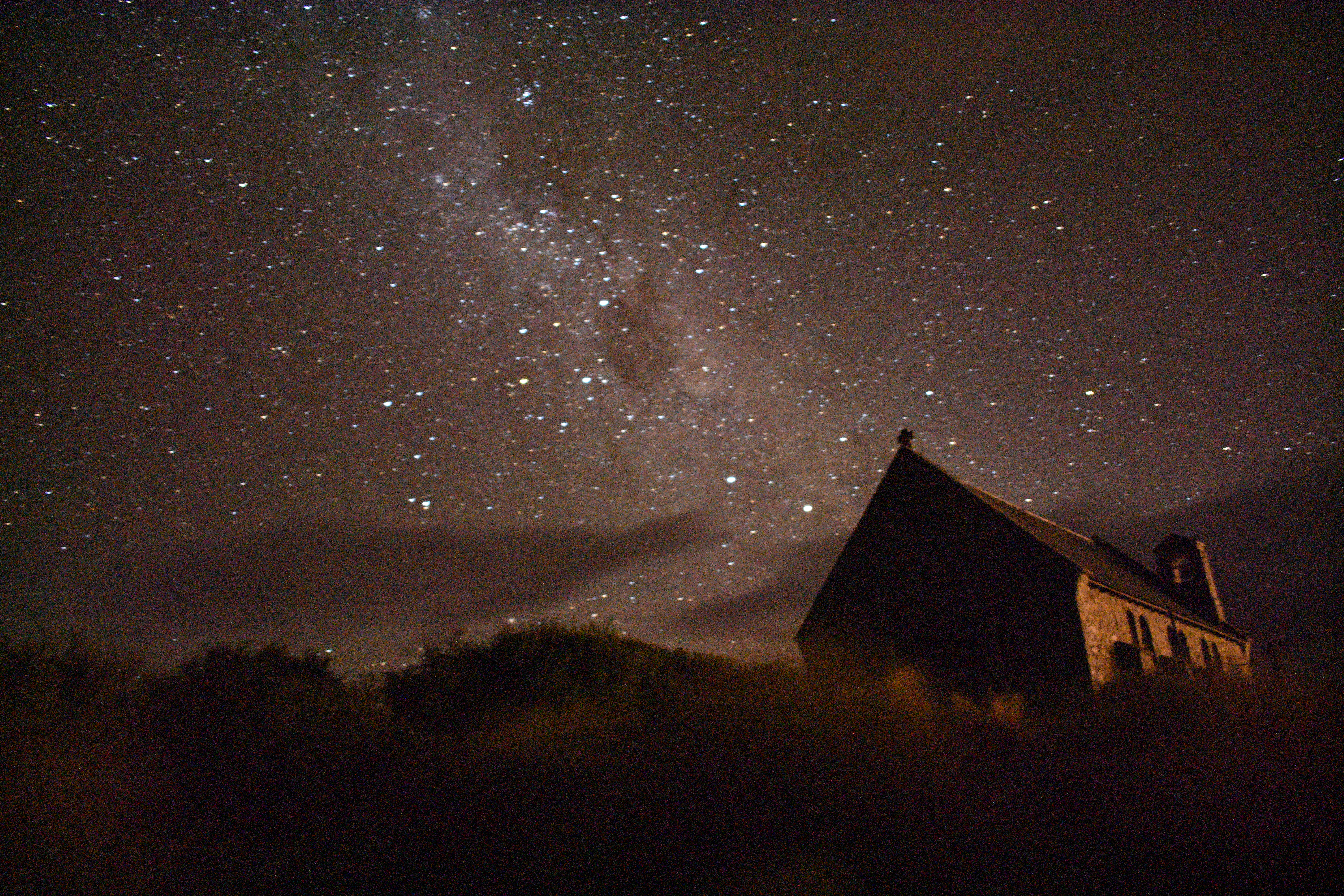 stargazing view in lake tekapo in New Zealand, south island, Mackenzie region